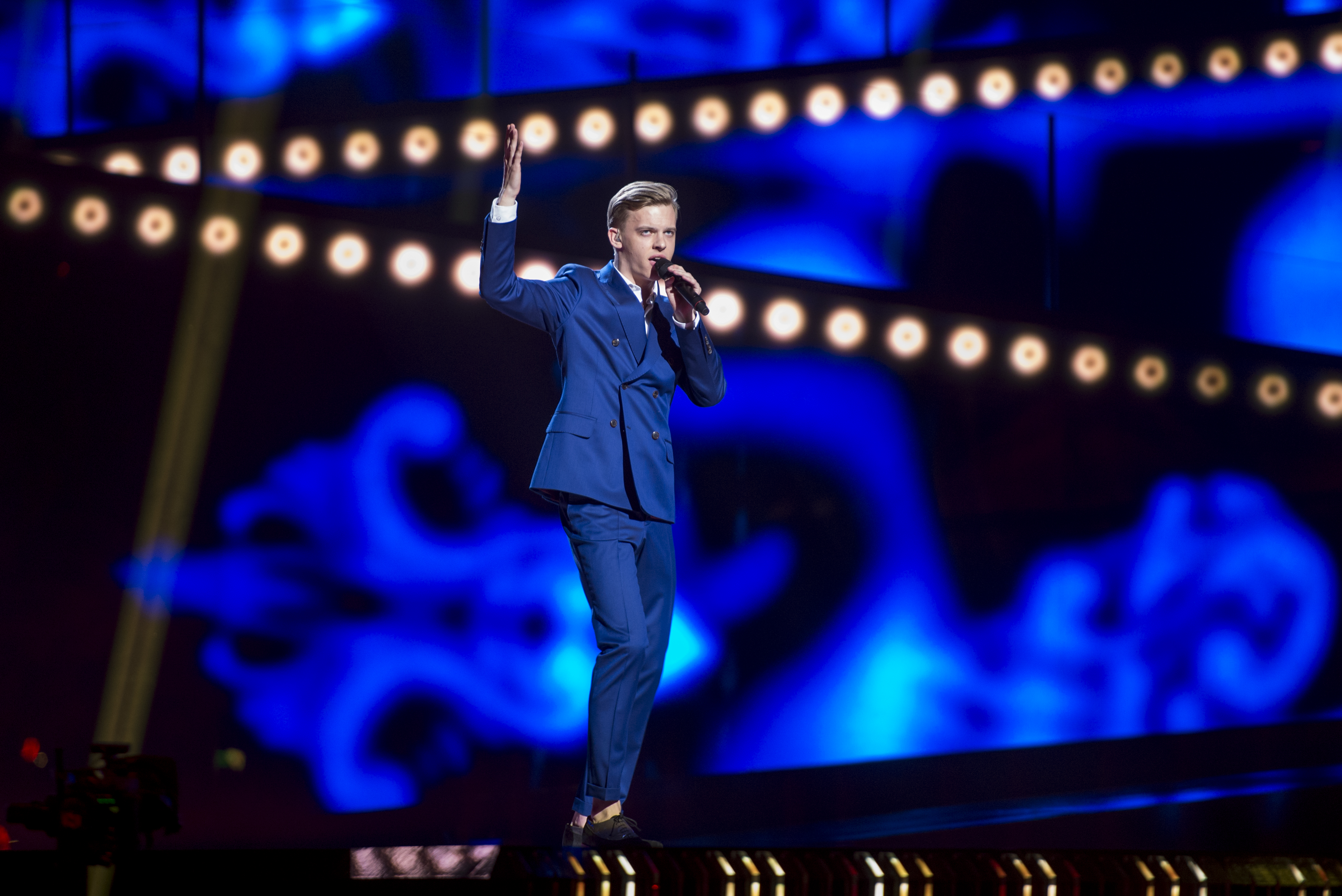 Jüri Pootsmann representing Estonia with the song "Play" during a rehearsal before the first semi final of the Eurovision Song Contest 2016 in Stockholm. (Help translate this text)